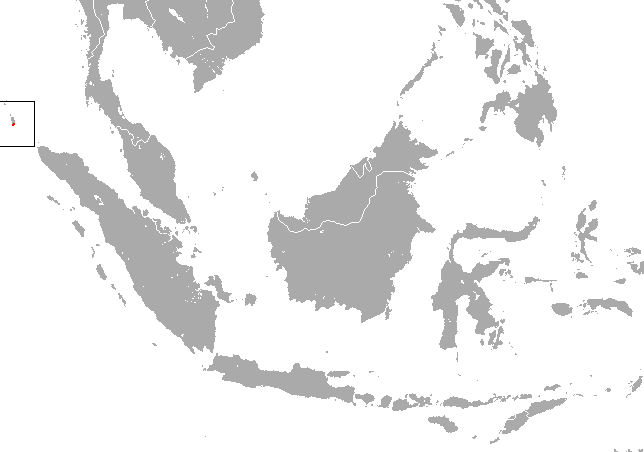 Nicobar Shrew (Crocidura nicobarica) range